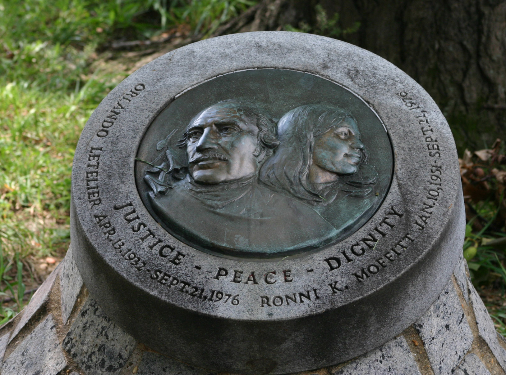 Orlando Letelier / Ronni K Moffit Memorial Massachusetts Ave / at Sheridan Circle, SW side